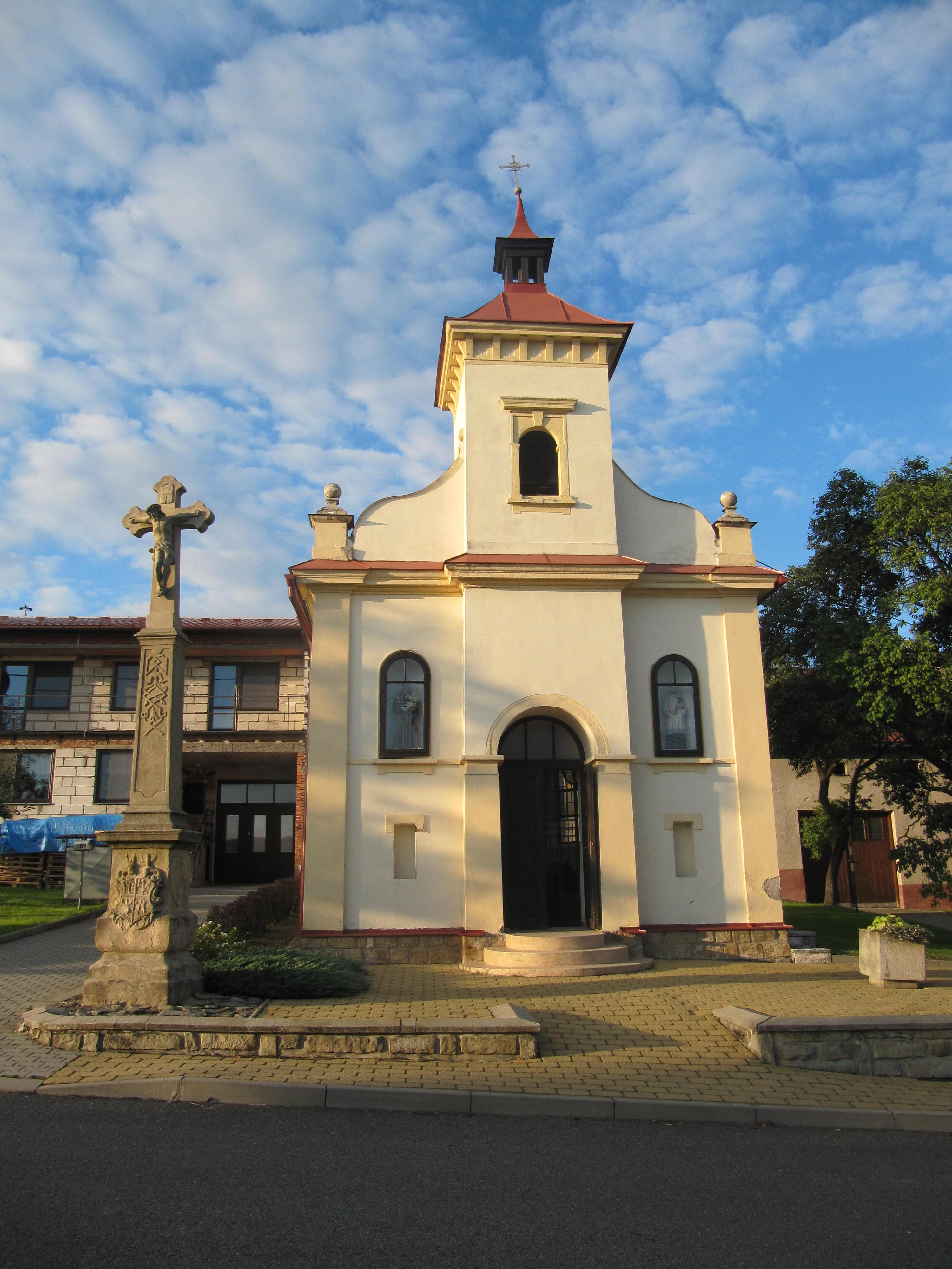 Karlovice in Zlín District, Czech Republic.Chapel.